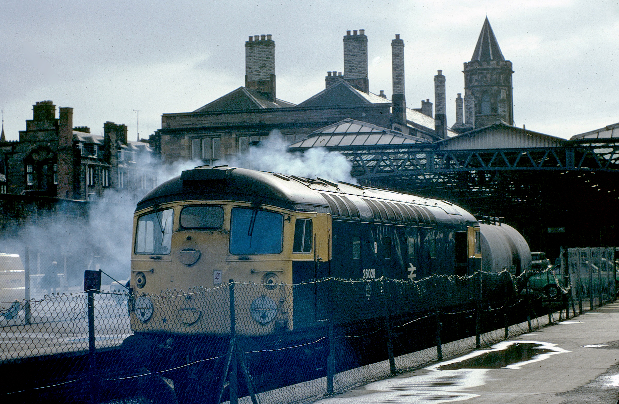 Perth station, 26028